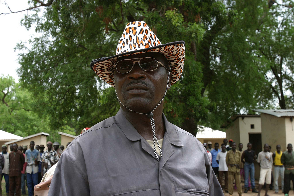 General Damane Zakaria, head and founder of the Union for Democratic Forces for Unity (UFDR) in his native village of Boromata, north-eastern Central African Republic, about 100 km from Birao, close to Sudan.